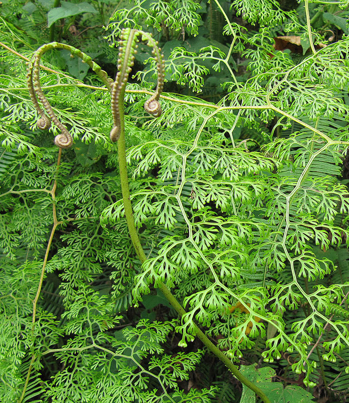 A vine-like fern found through much of the Neotropics. Photo from the Toro Valley, Costa Rica. In context at